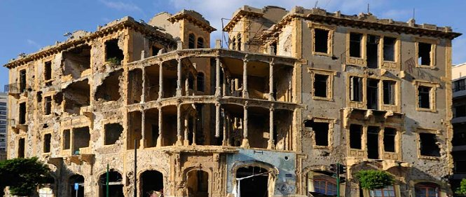 Facade of the Barakat building aka Yellow House before renovation; Beirut, Lebanon.